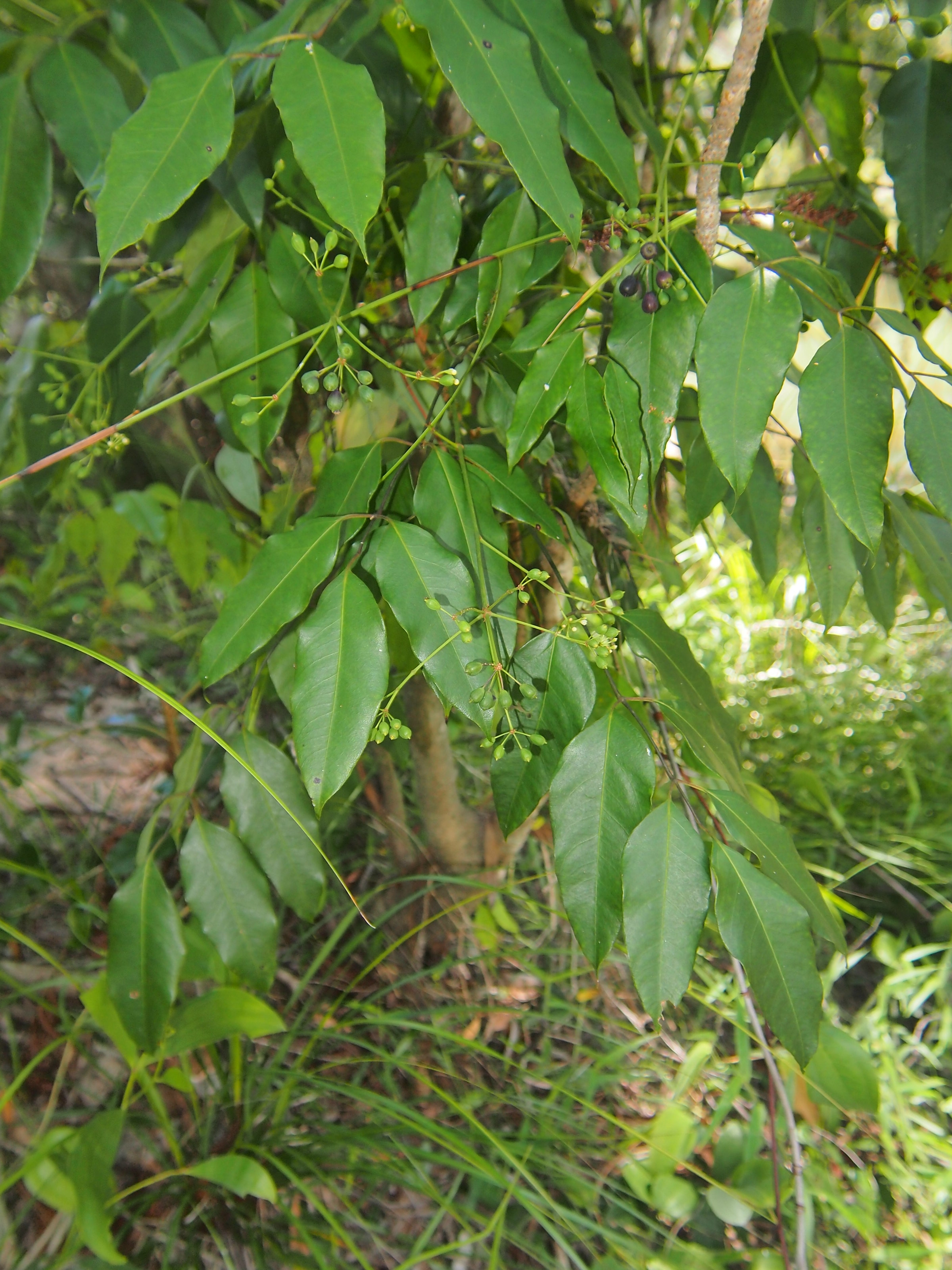 Polyscias australiana foliage